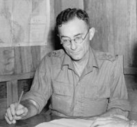 Charles Groves Wright Anderson